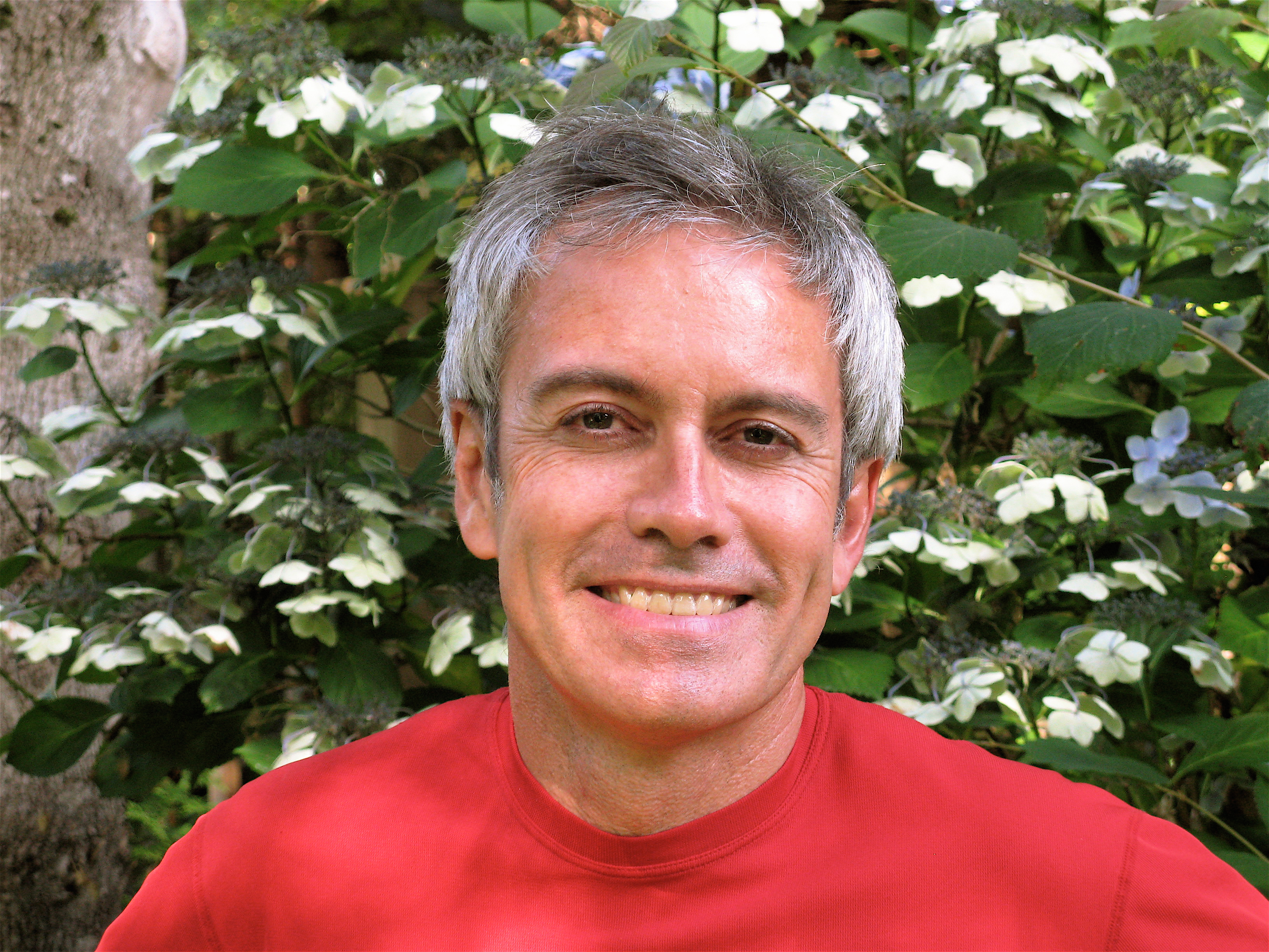 Bernard Crespi, renowned globally for his experimental and theoretical contributions to evolutionary biology, is Simon Fraser University’s 40th scholar to be elected to the Royal Society of Canada (RSC).